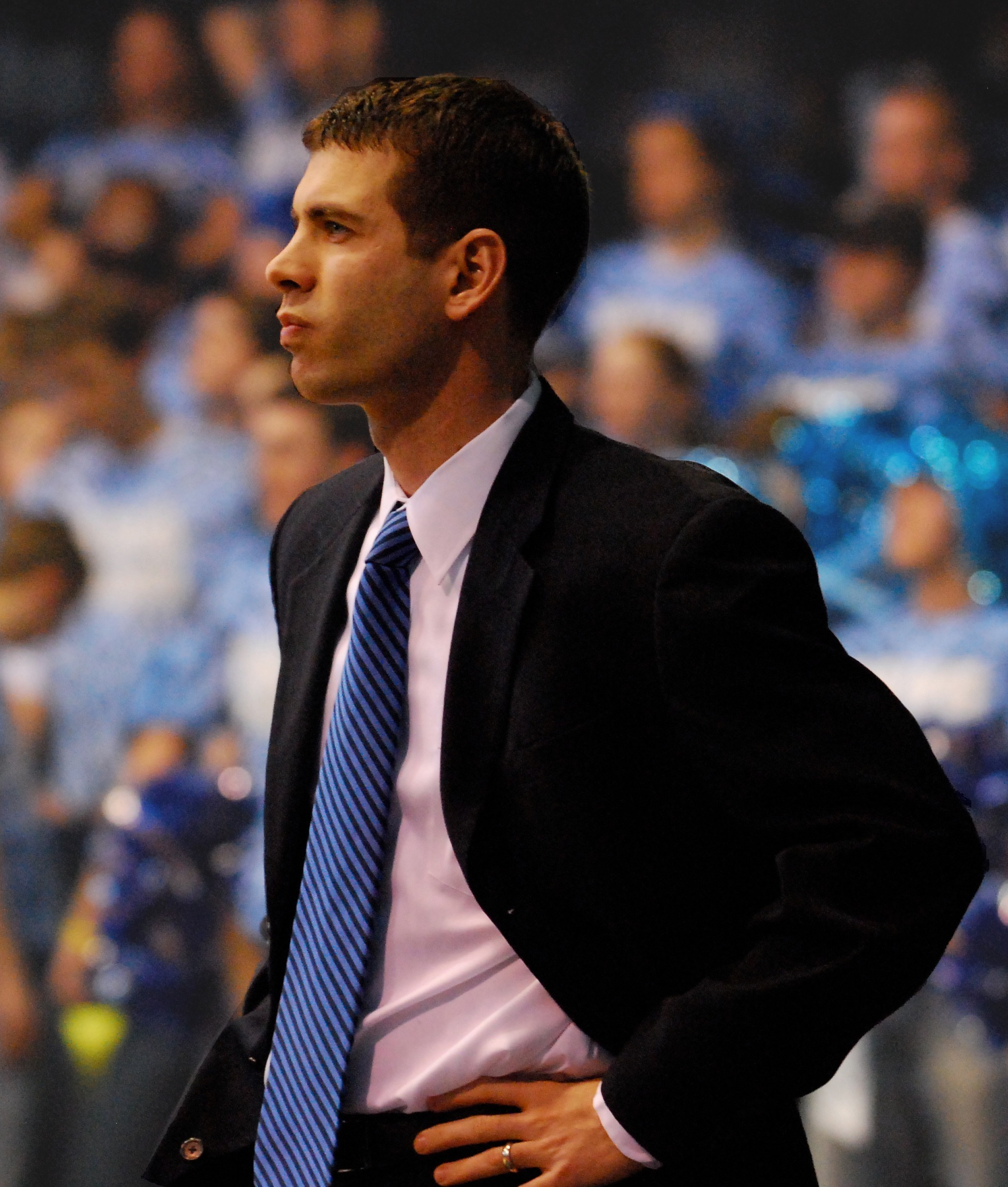 Coach Brad Stevens on the sidelines during Butler vs. Drake game, 2/23/08